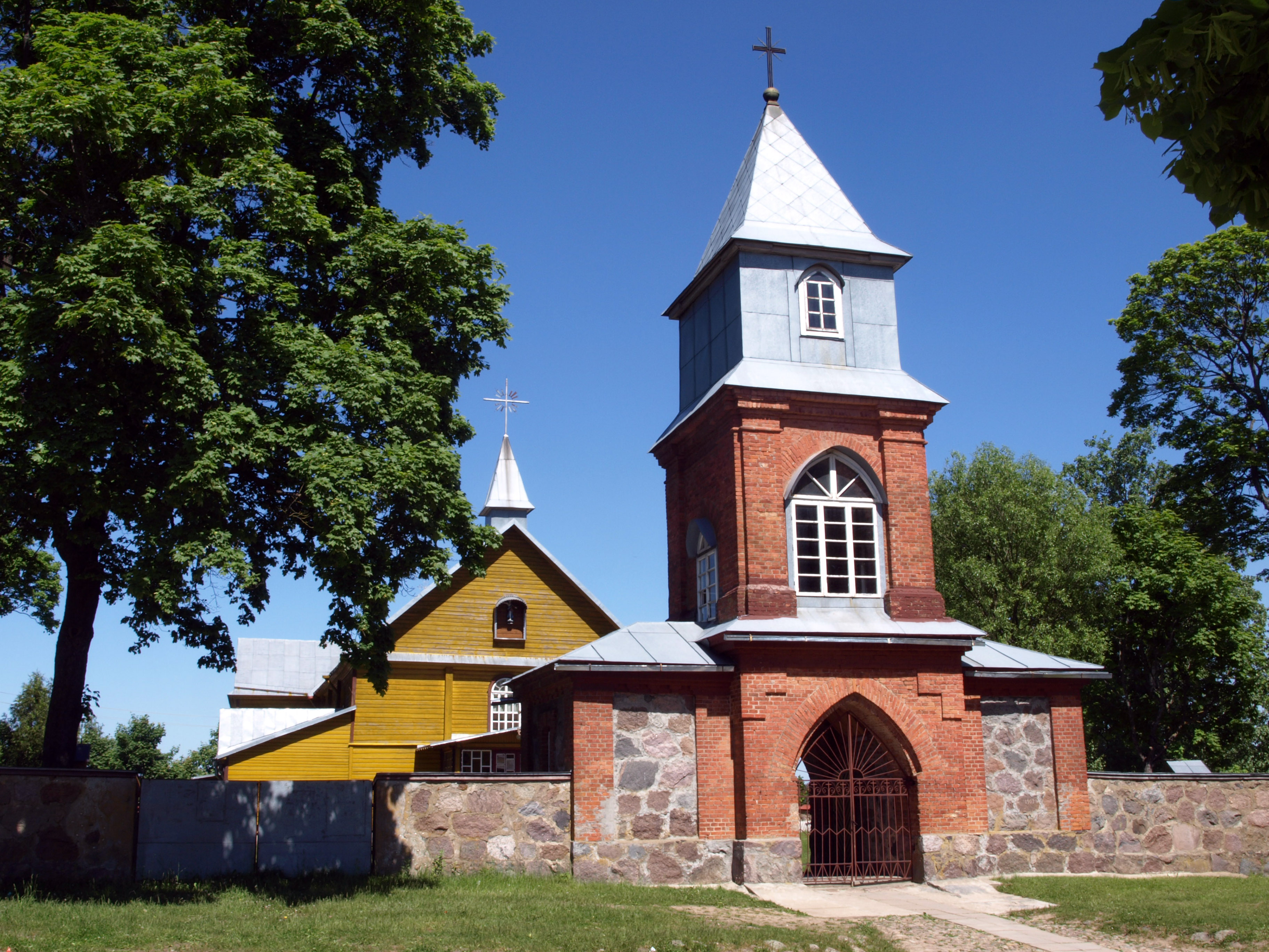 Dieveniškės church, Šalčininkai district, Lithuania